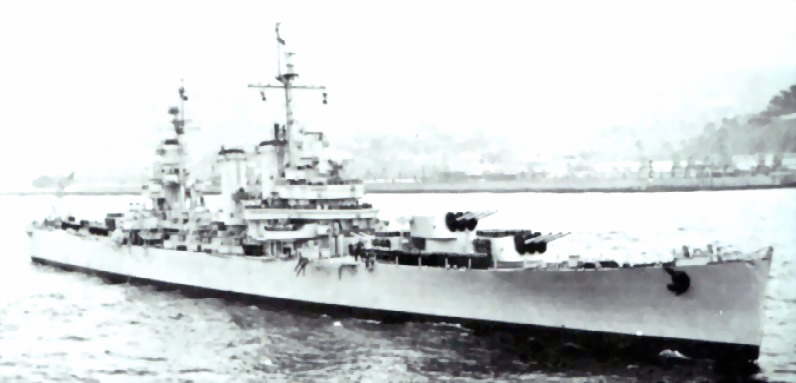 Starboard bow view of the former USS Brooklyn (CL-40) as the Chilean O'Higgins (CL-02) while underway in 1962.